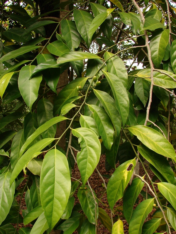 Buff Beech, image taken in Mt. Coot-tha Botanic garden (Tropical rainforest section), Brisbane Australia.